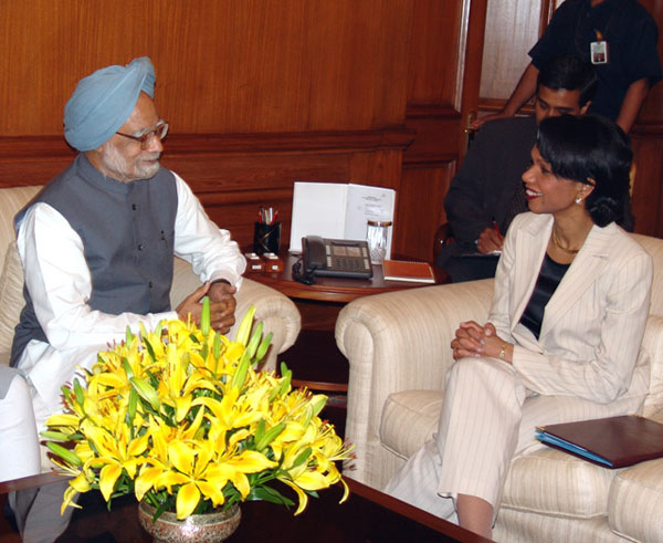 New Delhi, India March 16, 2005 During her trip to Asia, U.S. Secretary of State Condoleezza Rice met with Prime Minister Manmohan Singh of India.